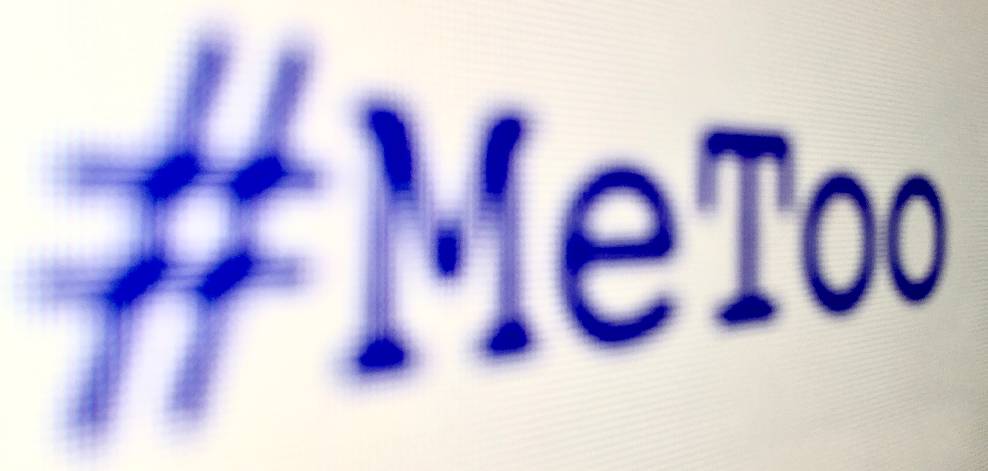 Hashtag #MeToo (digital text on RGB screen version 06)